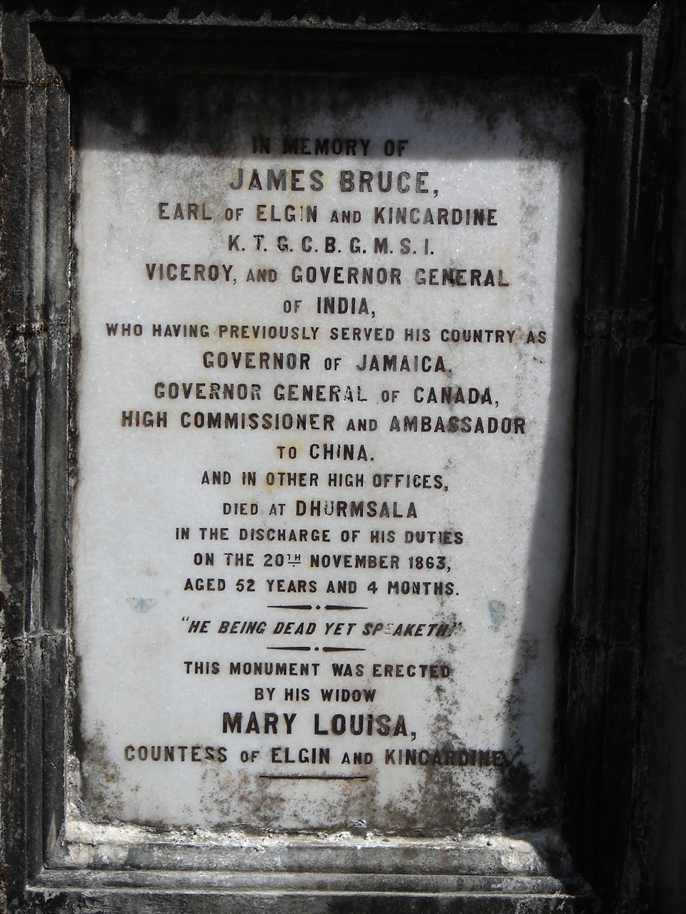 Memorial of Lord Elgin at St. John in the Wilderness, near McLeod Ganj.